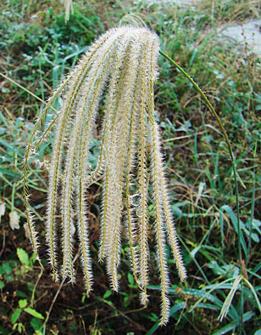 A striking horsetail grass from the Jaen area of northern Peru.